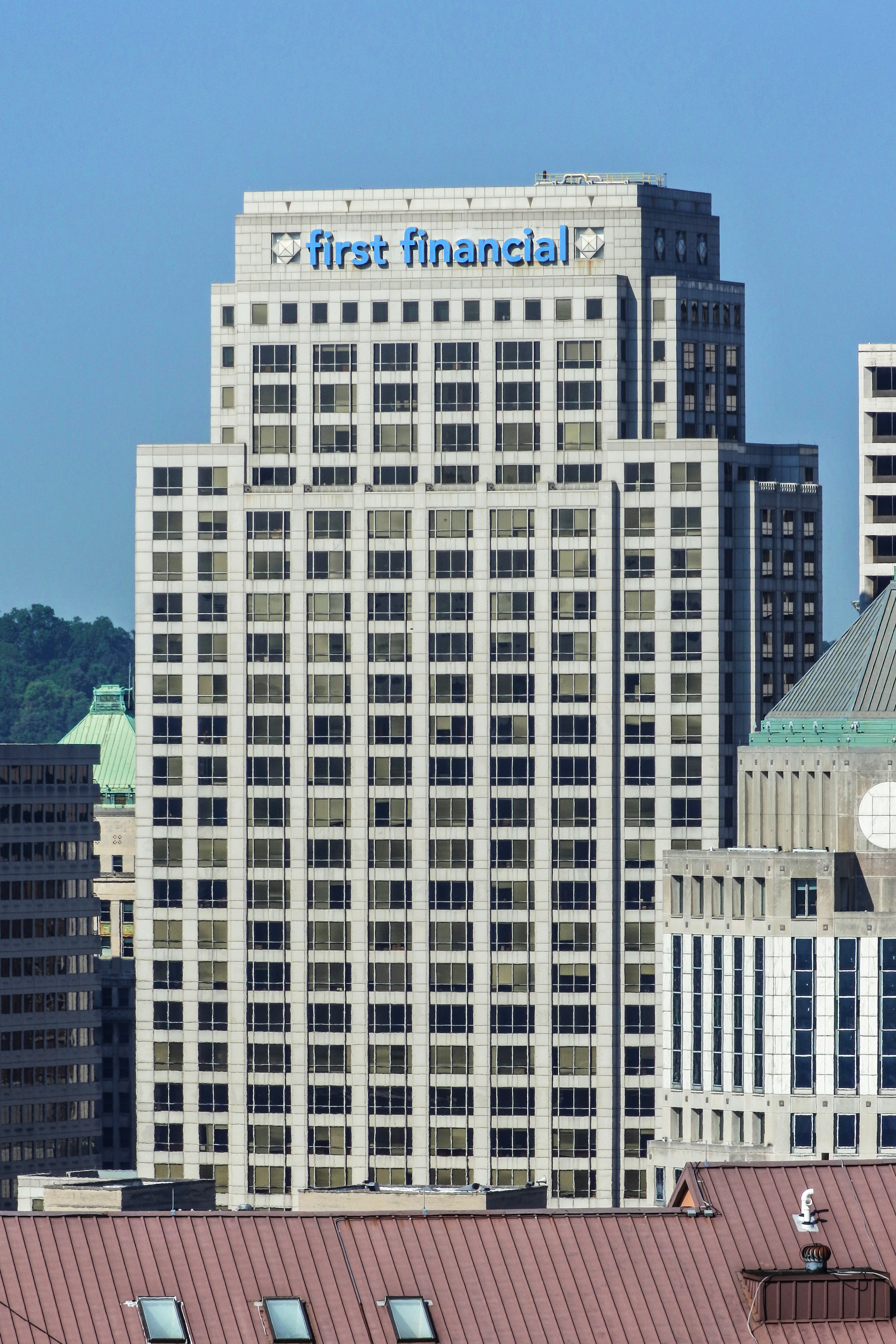 First Financial Center in Downtown Cincinnati, Ohio